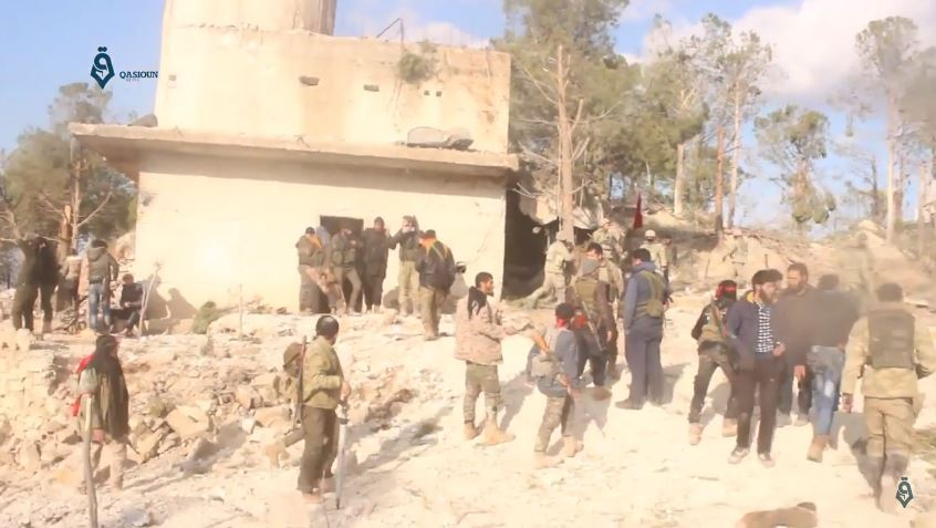 FSA Captures Bursaya Mountain And Begin The Battles To Reach Afrin